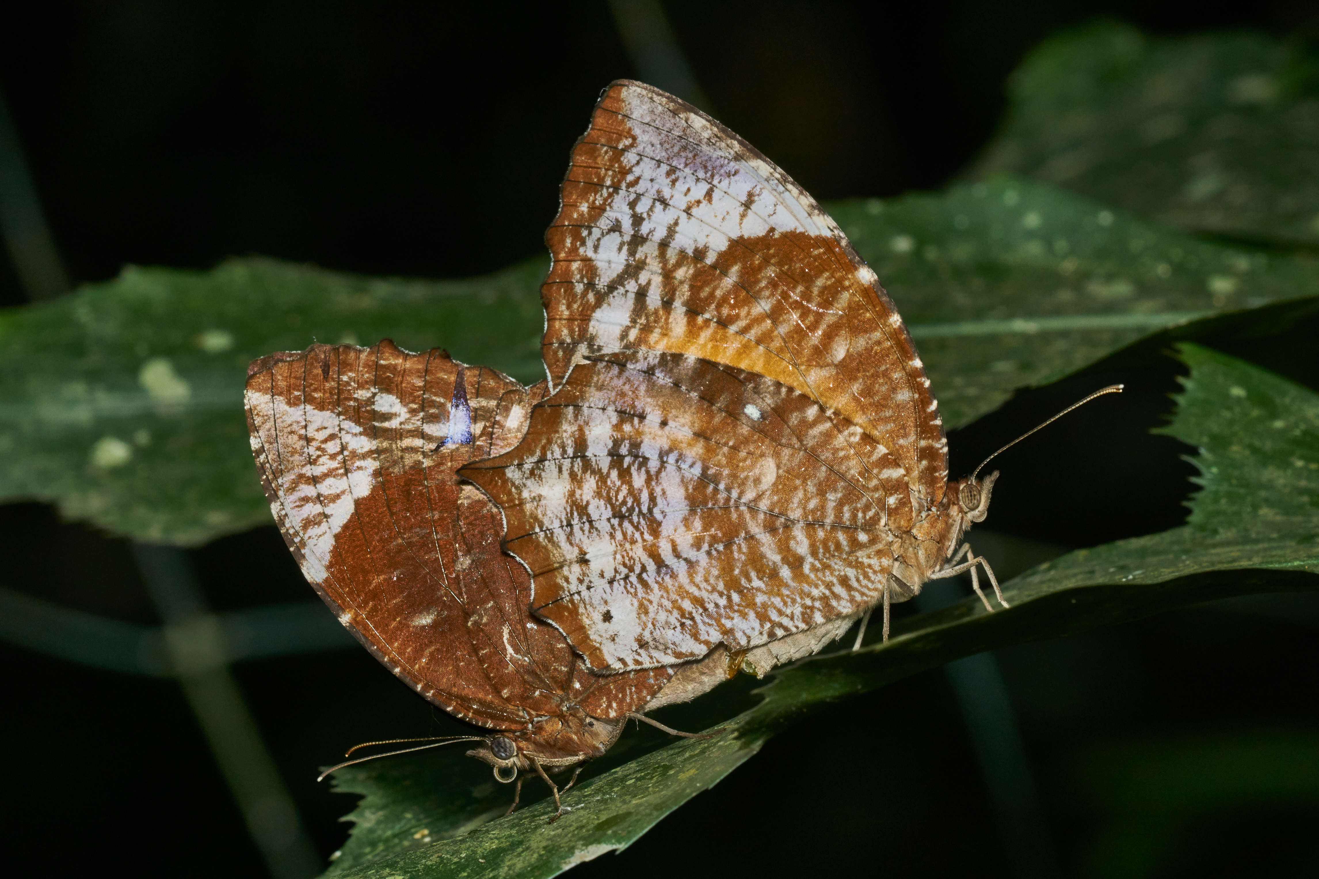 Elymnias caudata (Elymnisa hypermnestra caudata), Tailed Palmfly, is a species of satyrid butterfly found in South India.